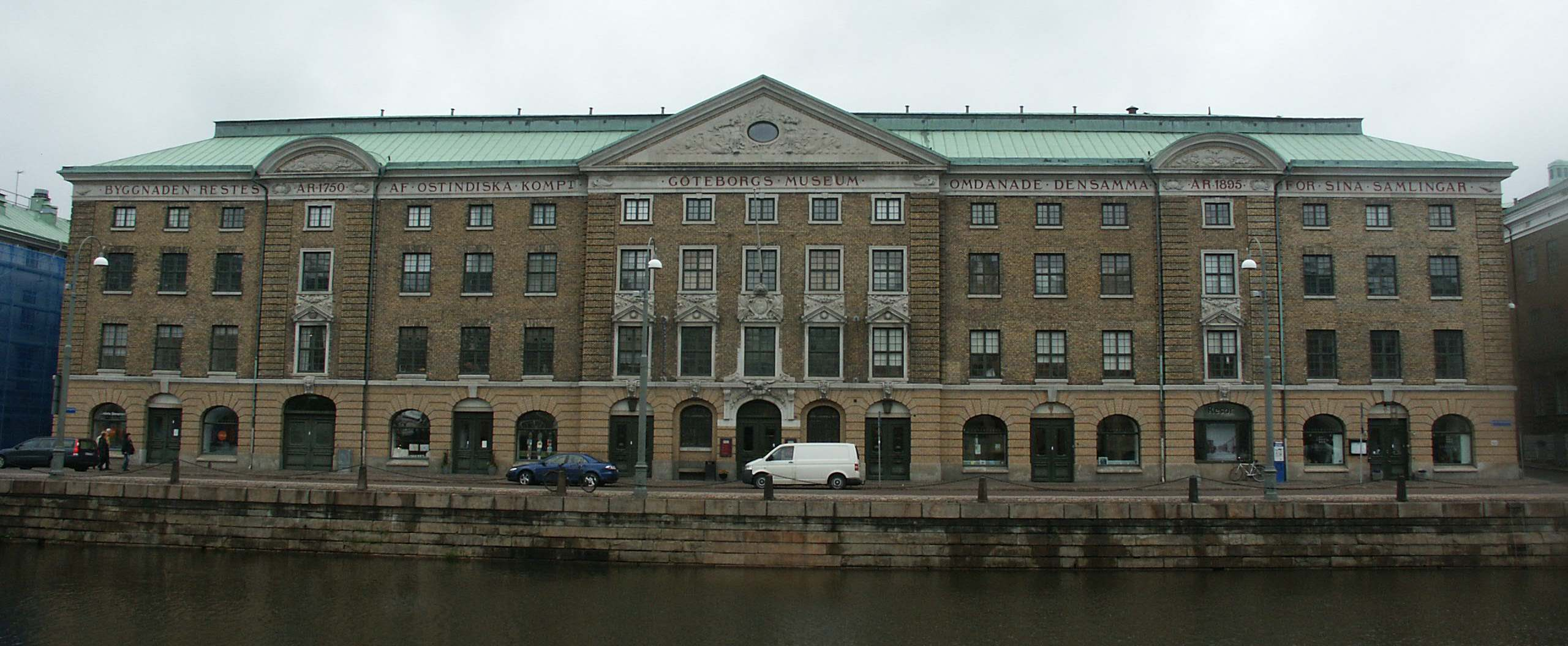 Gothenburg City Museum